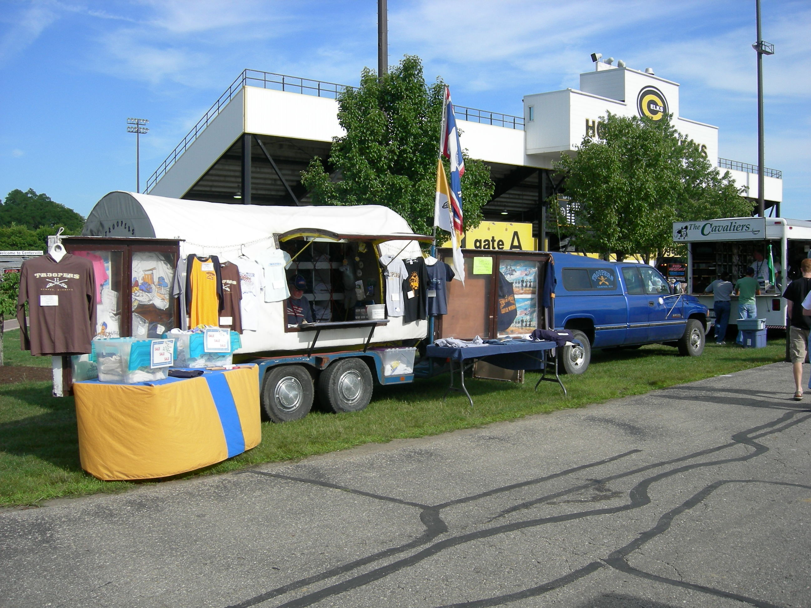 The Troopers sheep wagon, vending souvenirs at a drum corps contest in 2007.